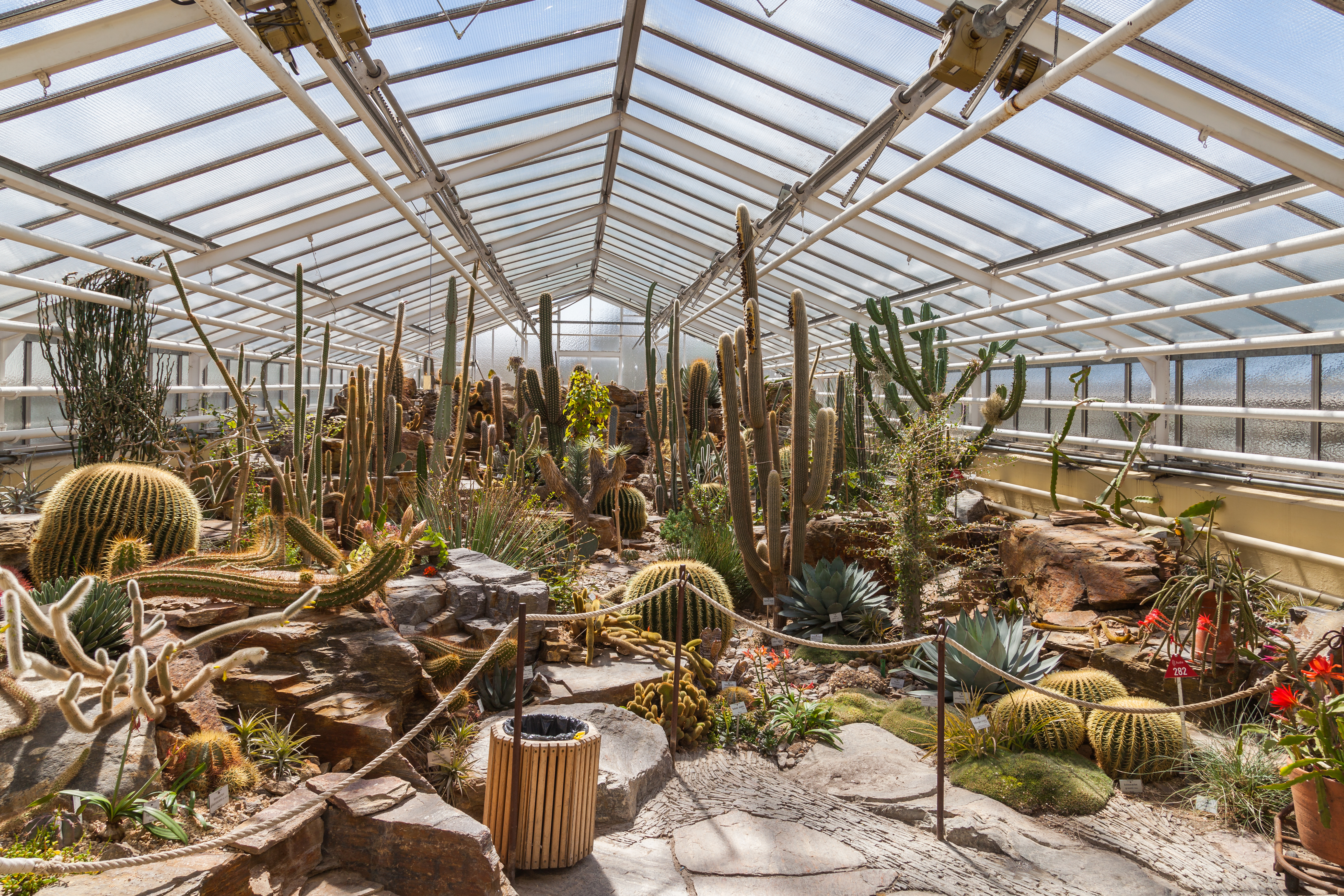 Mexikohaus, Botanic Garden, Munich, Germany